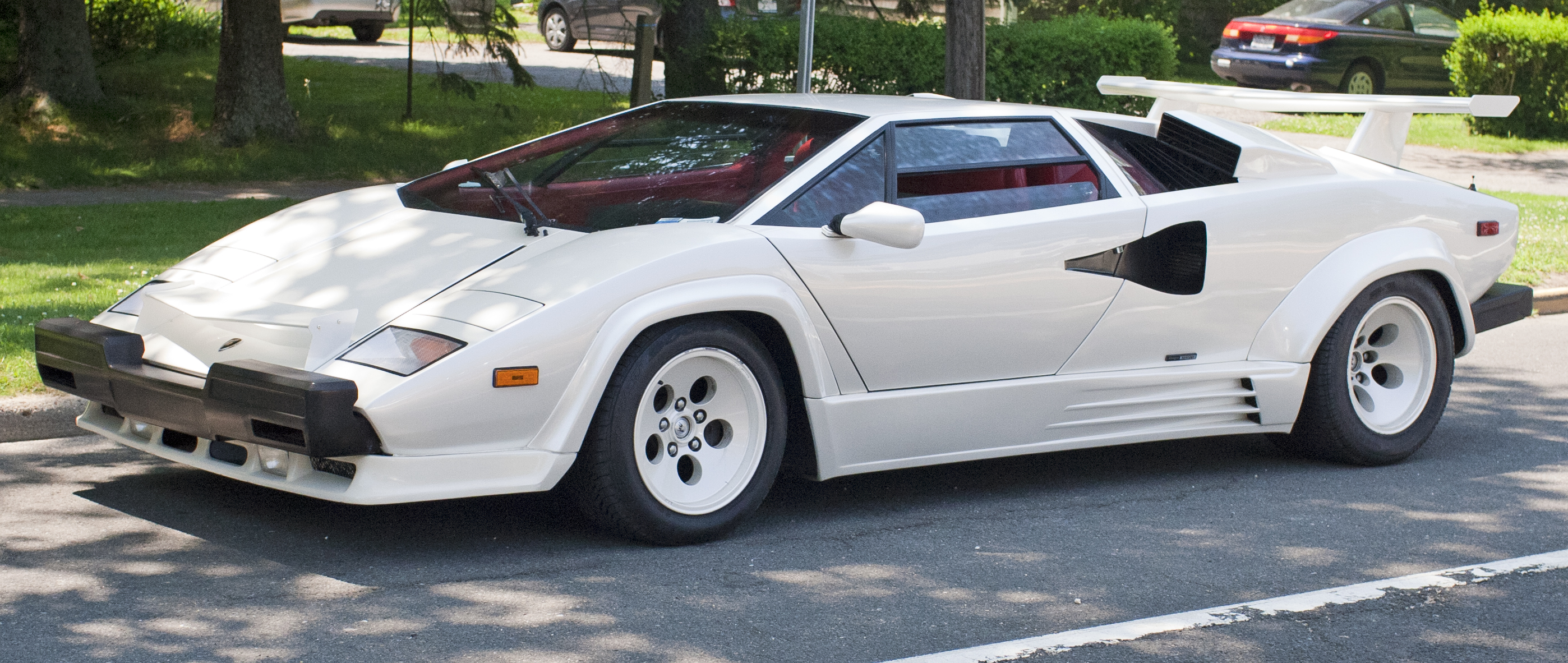 1988 Lamborghini Countach 5000 QV, US spec. Showing the mandatory federal bumpers.